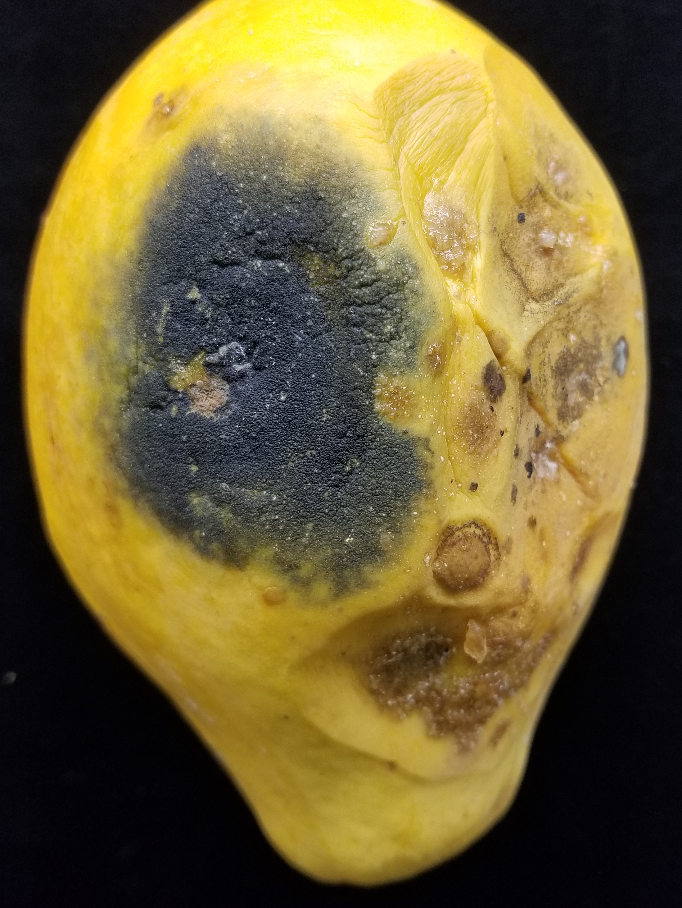 Pathogen: Lasiodiplodia theobromae (Pat.) Griffon & Maubl. (=Botryodiplodia theobromae Pat.; =B. gossypii Ellis. & Barth.; =Diplodia theobromae (Pat.) W. Nowell; =D. gossypina Cooke; =D. natalensis Pole-Evans; =Lasiodiplodia triflorae Higgins)